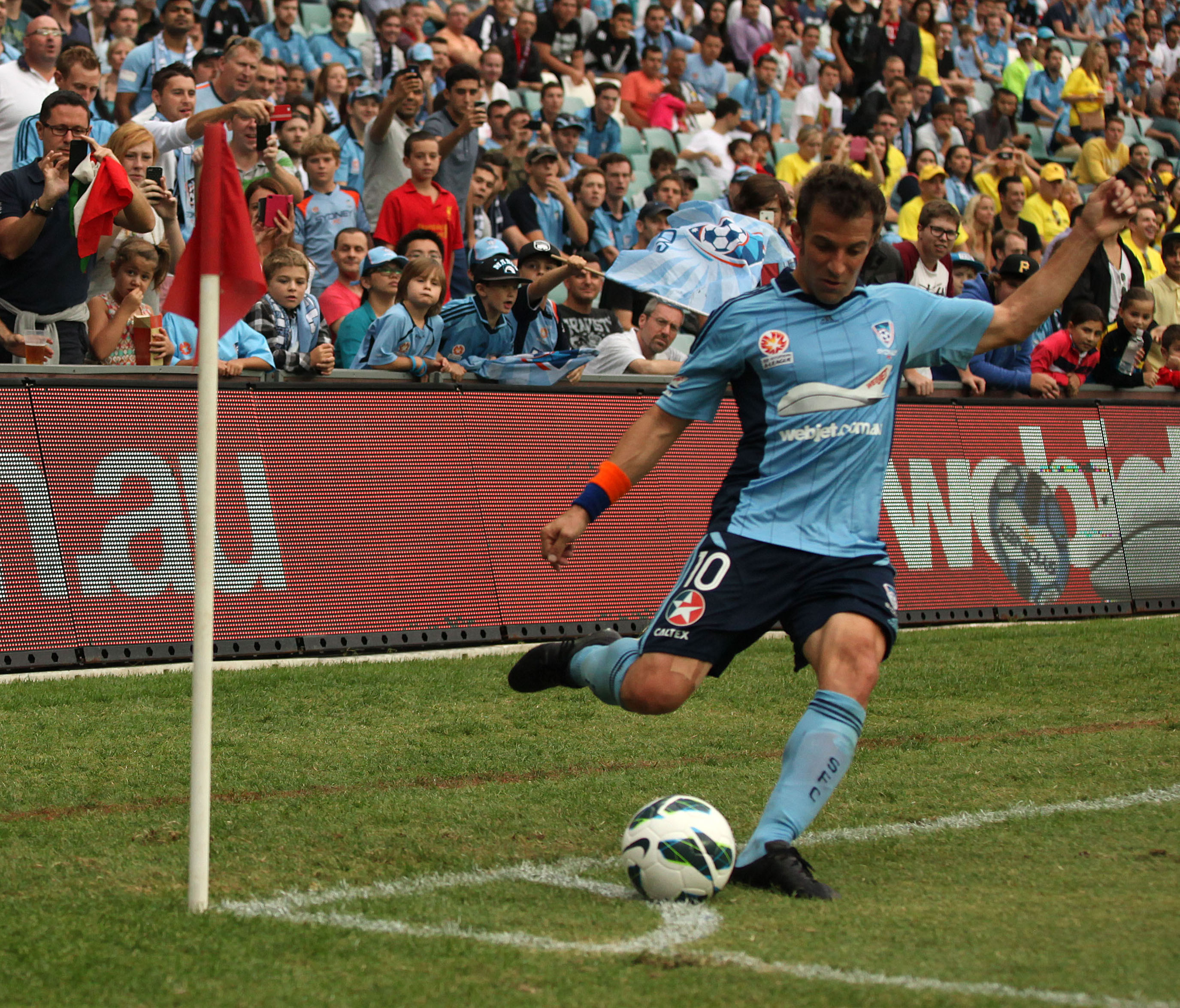 Alex Del Piero playing for Sydney FC.